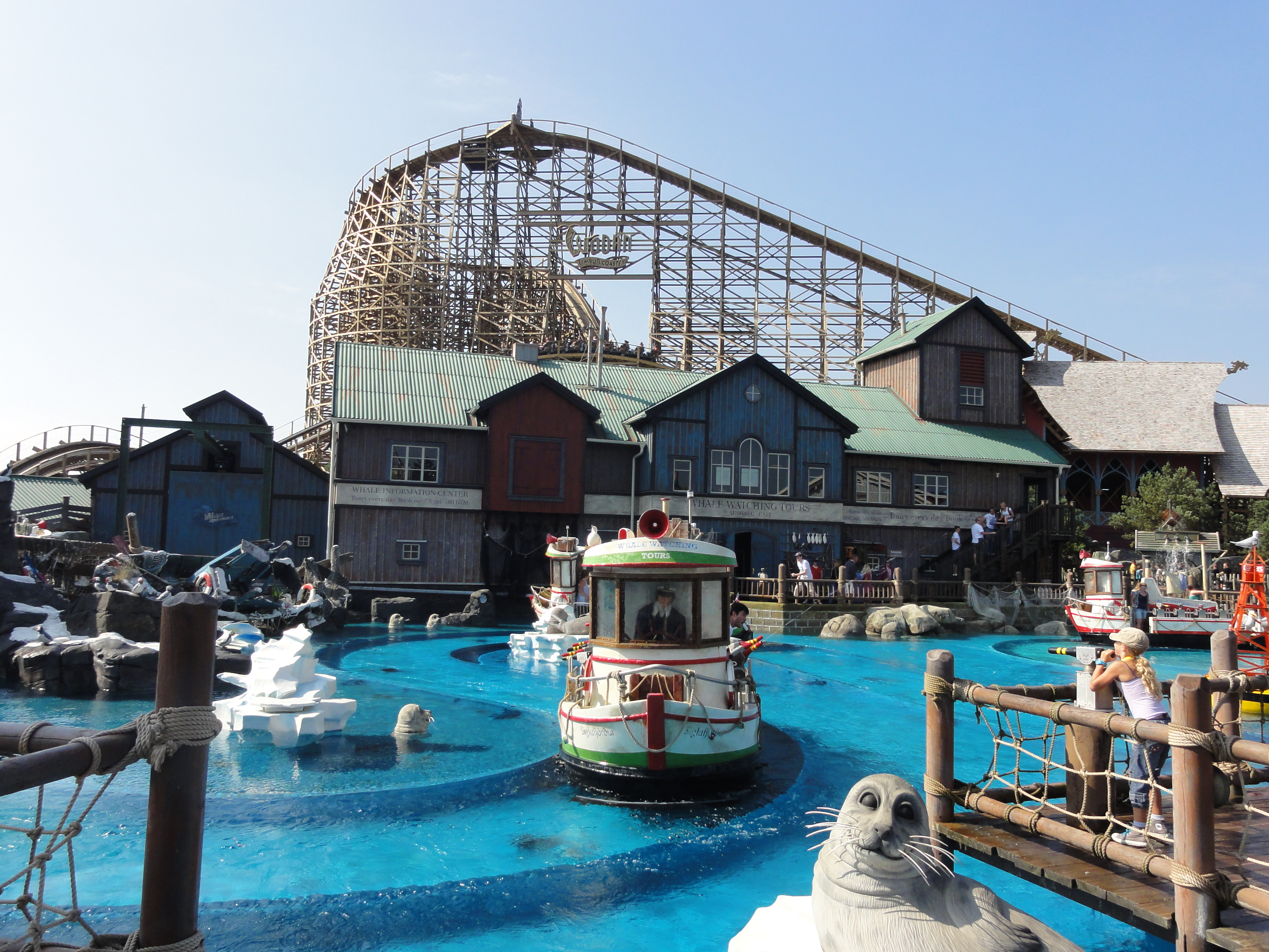 Whale Adventures Splash Tours & 'Wodan Timbur Coaster, Europa-Park, Rust, Baden-Württemberg, Germany.